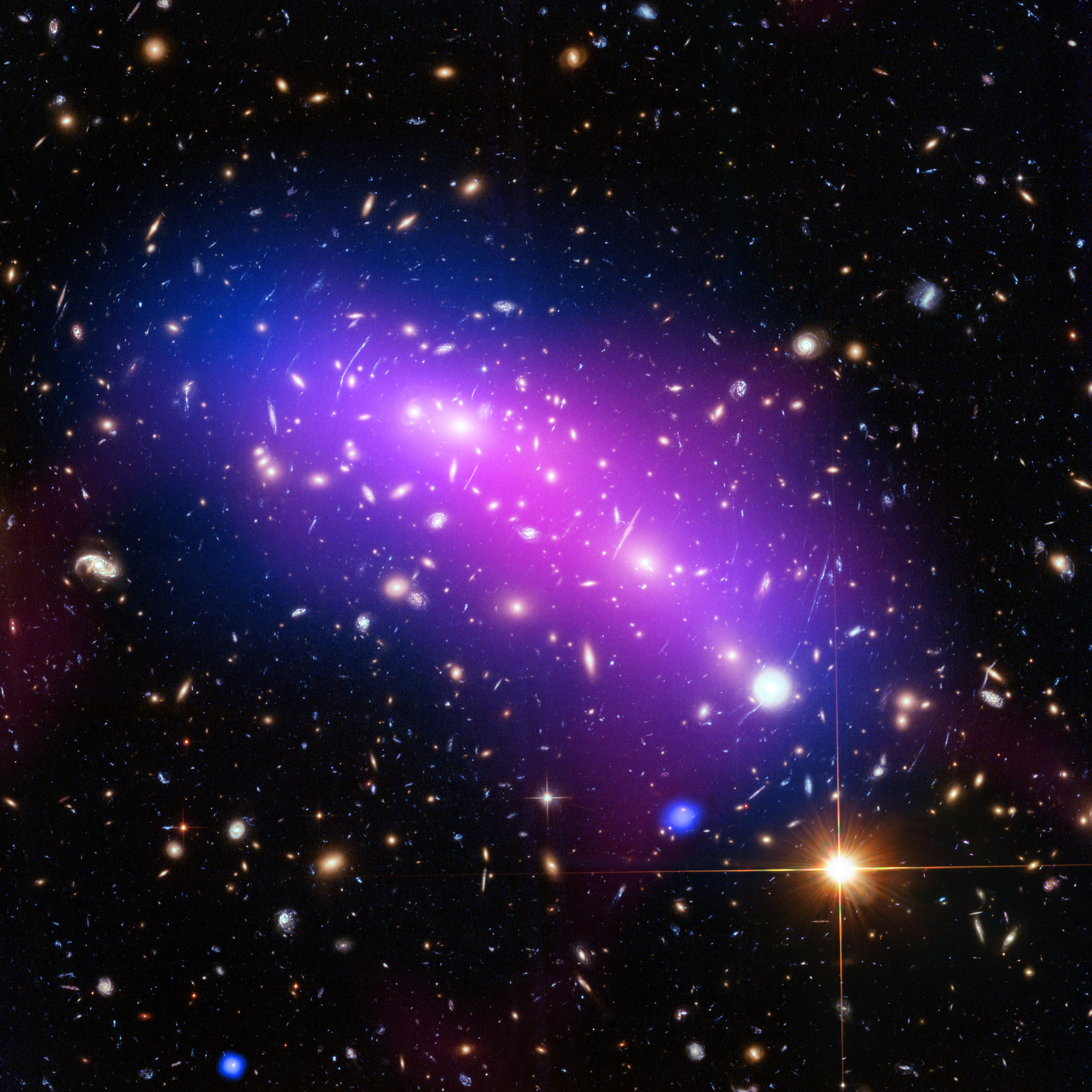 At first glance, this cosmic kaleidoscope of purple, blue and pink offers a strikingly beautiful — and serene — snapshot of the cosmos. However, this multi-coloured haze actually marks the site of two colliding galaxy clusters, forming a single object known as MACS J0416.1-2403 (or MACS J0416 for short). MACS J0416 is located about 4.3 billion light-years from Earth, in the constellation of Eridanus. This new image of the cluster combines data from three different telescopes: the NASA/ESA Hubble Space Telescope (showing the galaxies and stars), the NASA Chandra X-ray Observatory (diffuse emission in blue), and the NRAO Jansky Very Large Array (diffuse emission in pink). Each telescope shows a different element of the cluster, allowing astronomers to study MACS J0416 in detail. As with all galaxy clusters, MACS J0416 contains a significant amount of dark matter, which leaves a detectable imprint in visible light by distorting the images of background galaxies. In this image, this dark matter appears to align well with the blue-hued hot gas, suggesting that the two clusters have not yet collided; if the clusters had already smashed into one another, the dark matter and gas would have separated. MACS J0416 also contains other features — such as a compact core of hot gas — that would likely have been disrupted had a collision already occurred. Together with five other galaxy clusters, MACS J0416 is playing a leading role in the Hubble Frontier Fields programme, for which this data was obtained. Owing to its huge mass, the cluster is in fact bending the light of background objects, acting as a magnifying lens. Astronomers can use this phenomenon to find galaxies that existed only hundreds of million years after the big bang. For more information on both Frontier Fields and the phenomenon of gravitational lensing, see Hubblecast 90: The final frontier.